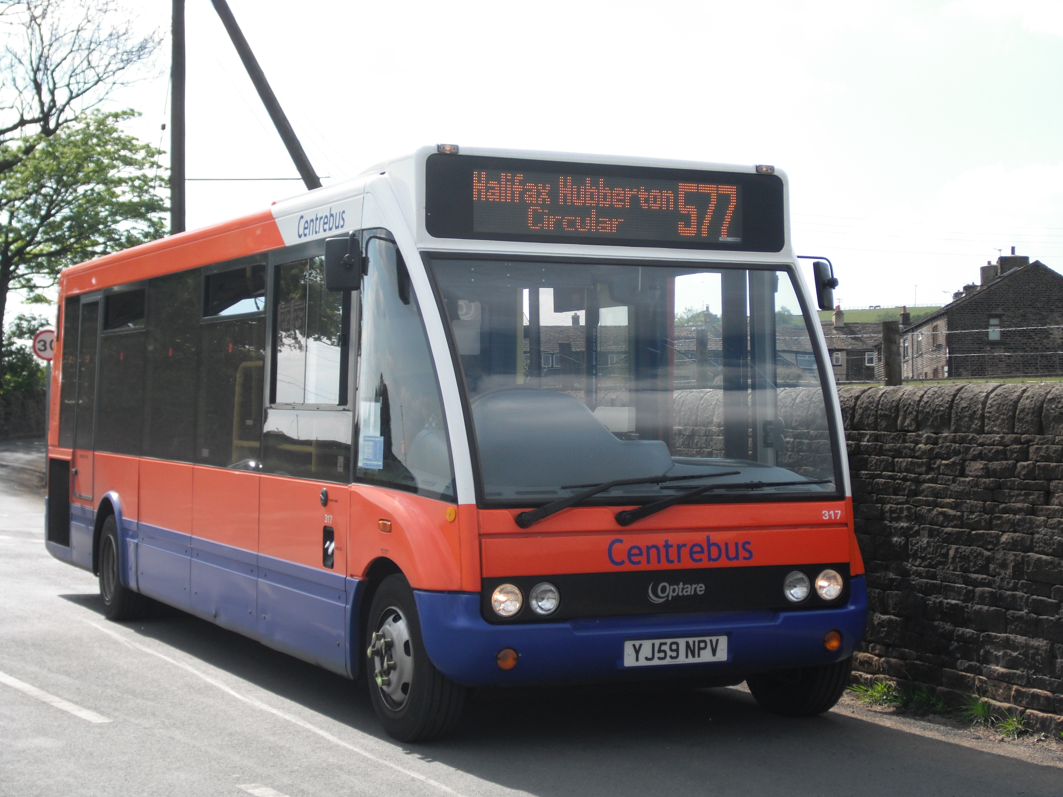 Centrebus bus 317 (reg. YJ59 NPV), a 2010 Optare Solo M880SL midibus.